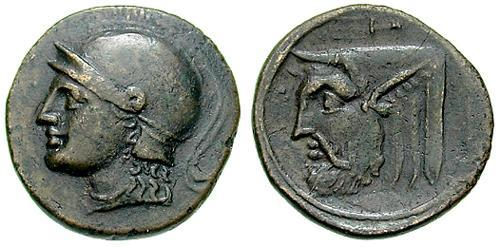 Ancient Coin of Akarnania Greece. Akarnania, Federal Coinage. Circa 300-167 BC. Æ 21mm. Helmeted head of Athena left / Head of a man-headed bull (Achelous) left; trident above. SNG Copenhagen 423-424.